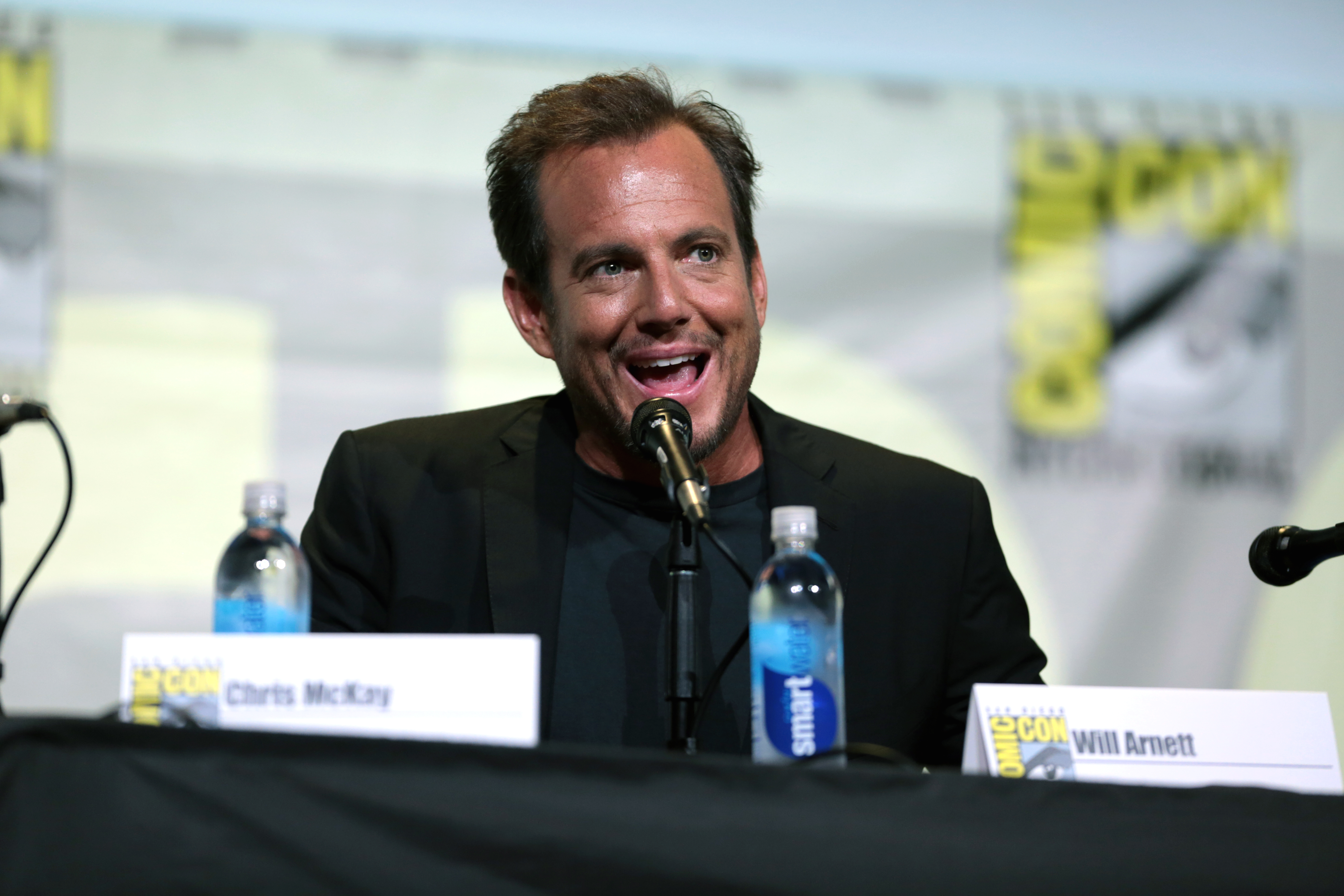 Will Arnett speaking at the 2016 San Diego Comic-Con International in San Diego, California.